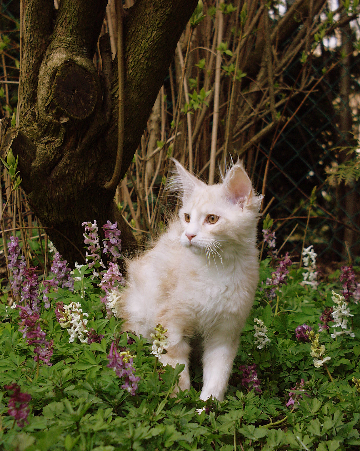 a male Maine Coon Kitten in red-silver-blotched-tabby/White; FIFe-EMS-Code: MCO ds 09 22